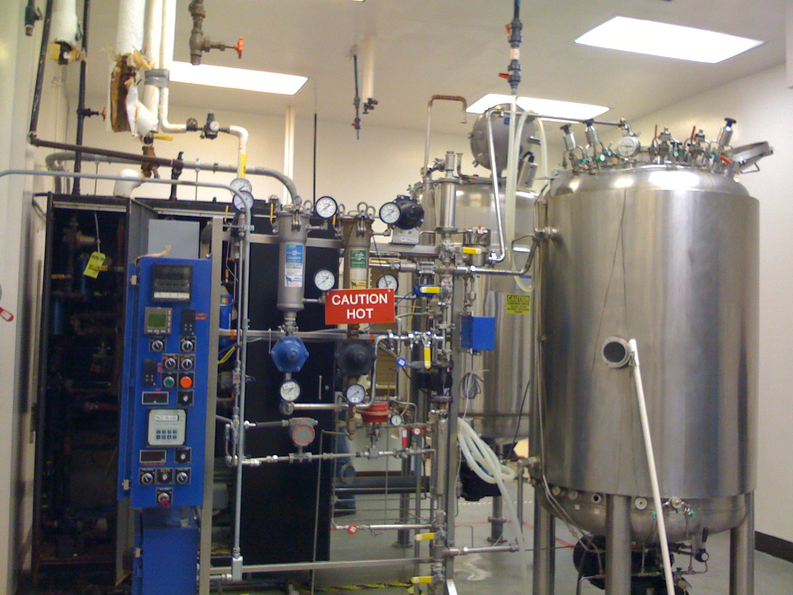 Bioreactors for bacterial fermentation for production of vaccines